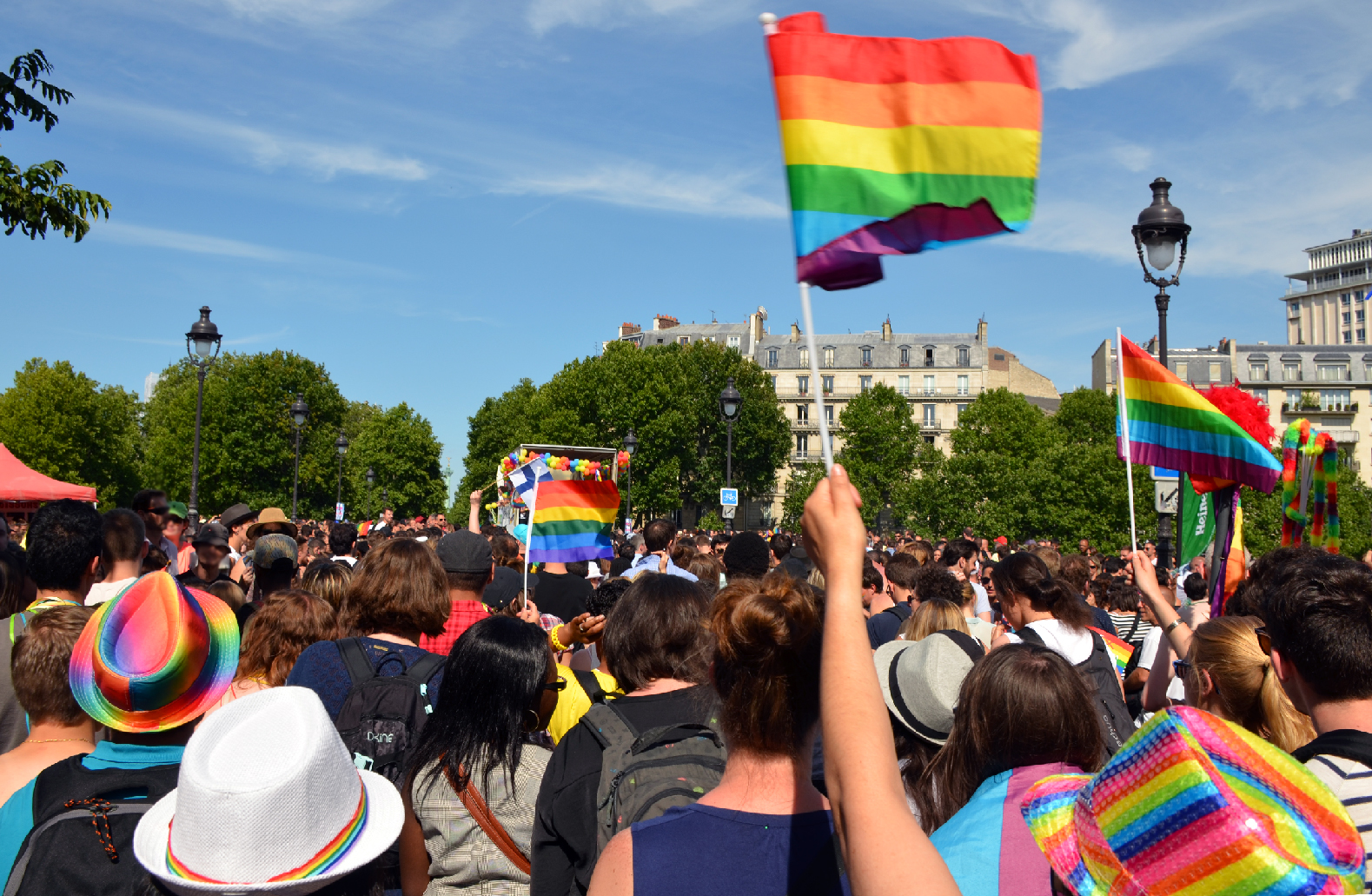 Paris Gay Pride ( Marche des Fiertés LGBT ) , the 27th of June 2015.